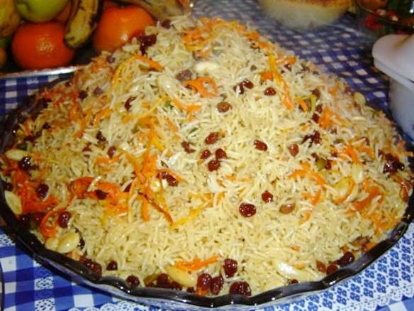 Popular Afghani Palo. It is rice cooked with sliced carrots, sliced orange peels (removing the white part), raisins, almonds, and other stuff.